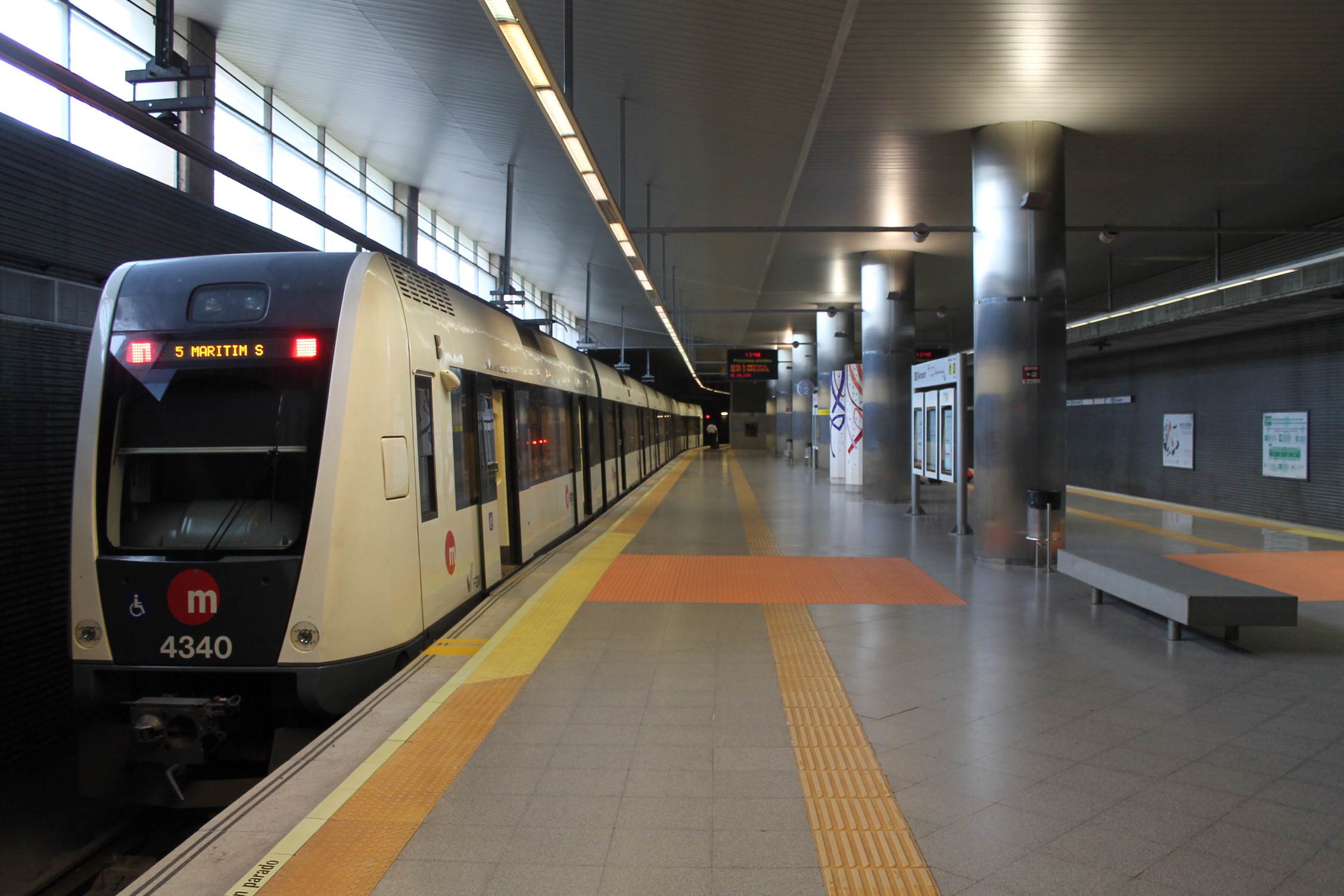 Platform of the Aeroport station of Metrovalencia.